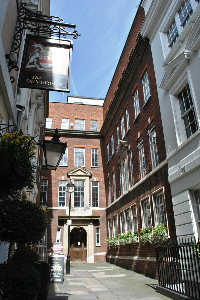 Gateway from Devereux Court